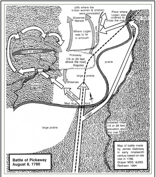 Map of the Battle of Piqua in 1780 by James Galloway in 1798 from the Lyman Drape Manuscripts Collection MSS 8J265, redrawn in 1994, from the Selected Papers From The 1991 And 1992 George Rogers Clark Symposium